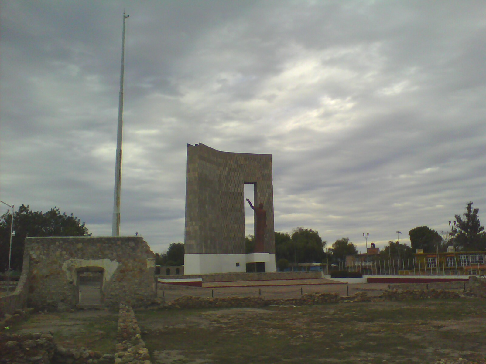 haciendo de corralejo hidalgo